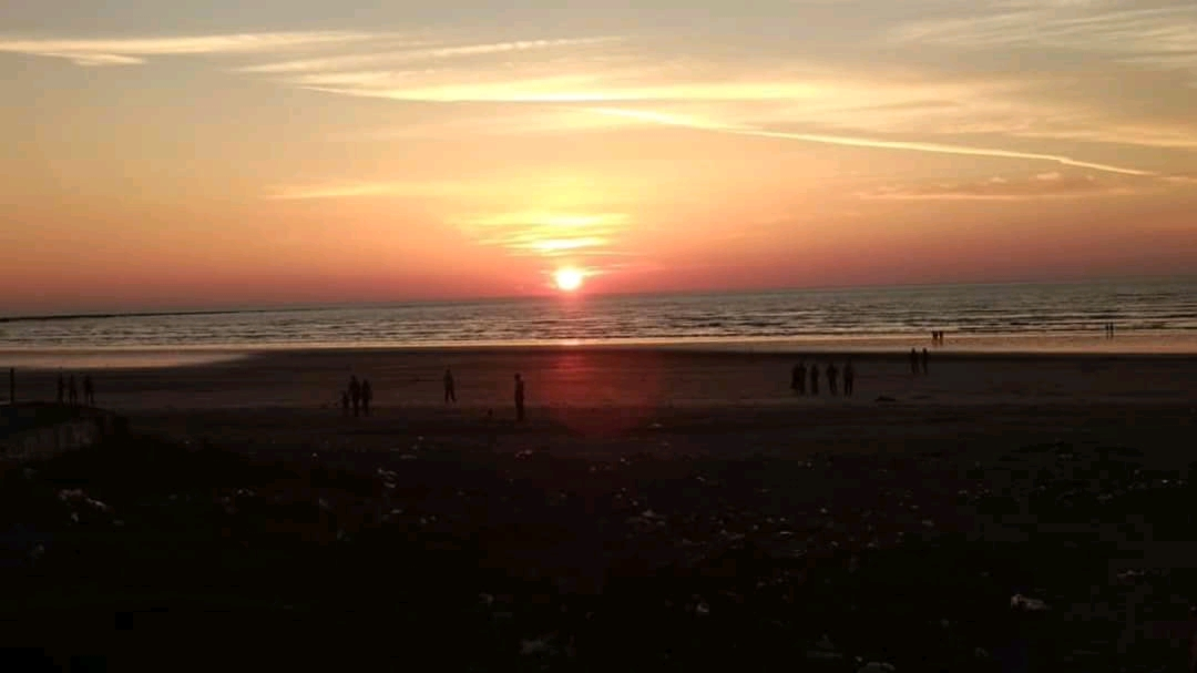 Sunset scene at Umargam beach